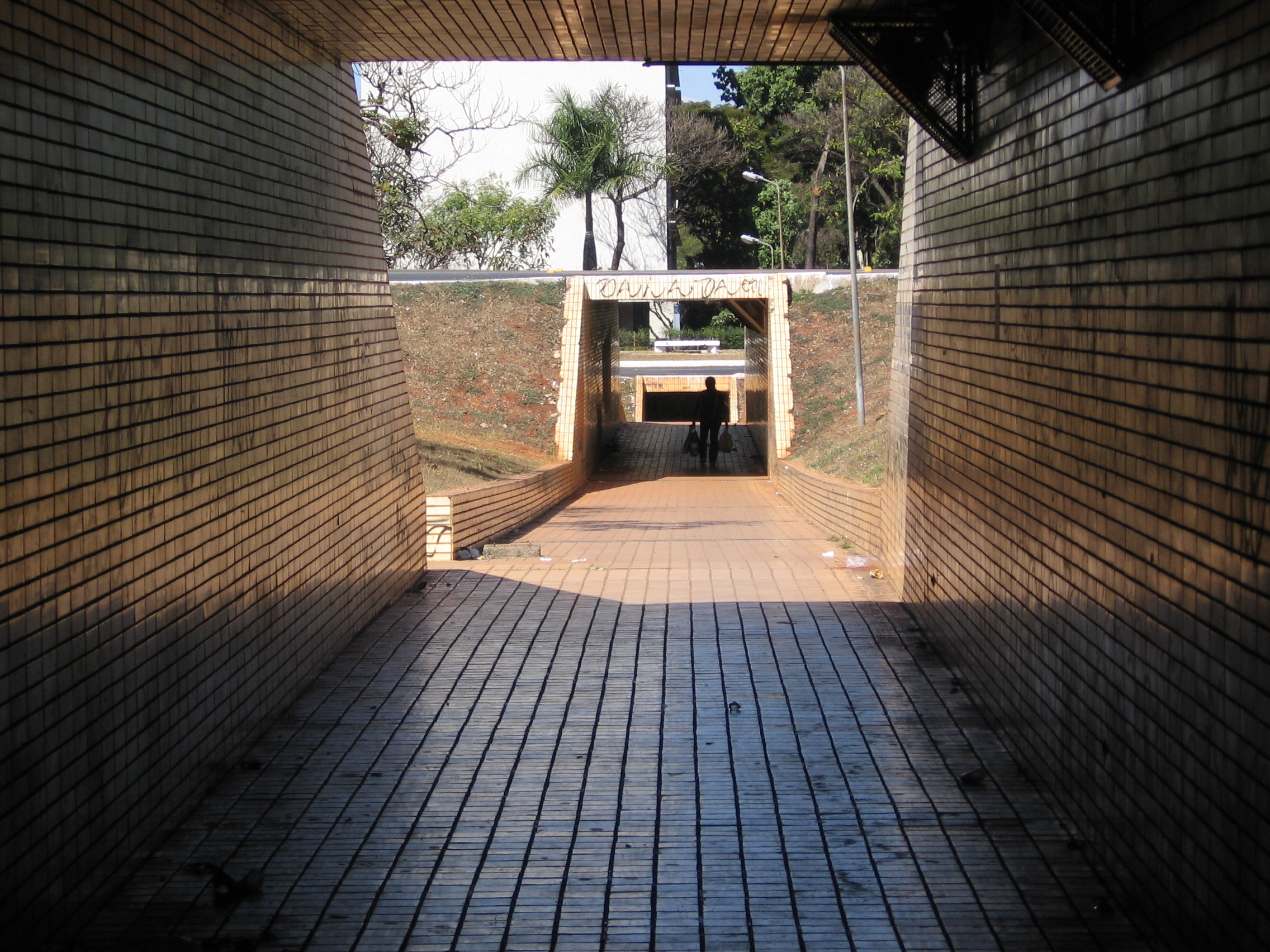 Inside view ofthe Brasília underpass that links the 103 South Square to the 203 South Square (bypassing the main rodoviary axis above)